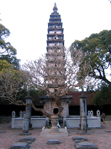 Pho Minh tower, 13th century, Tran dynasty tower in Nam Dinh, Vietnam